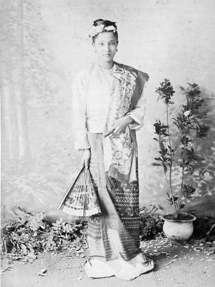 The belle of Mandalay